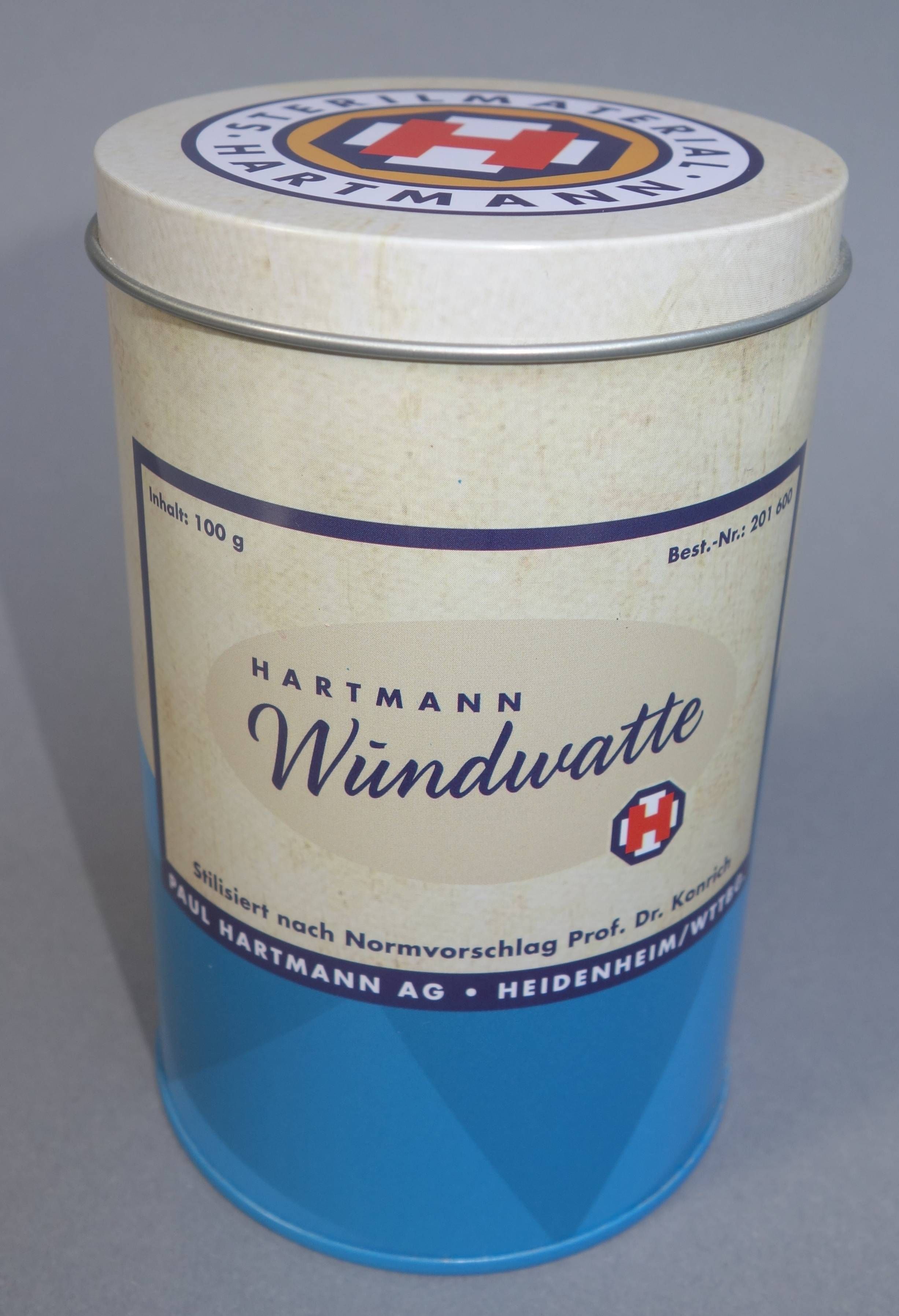 Cotton wool for wuond treatment (historic)